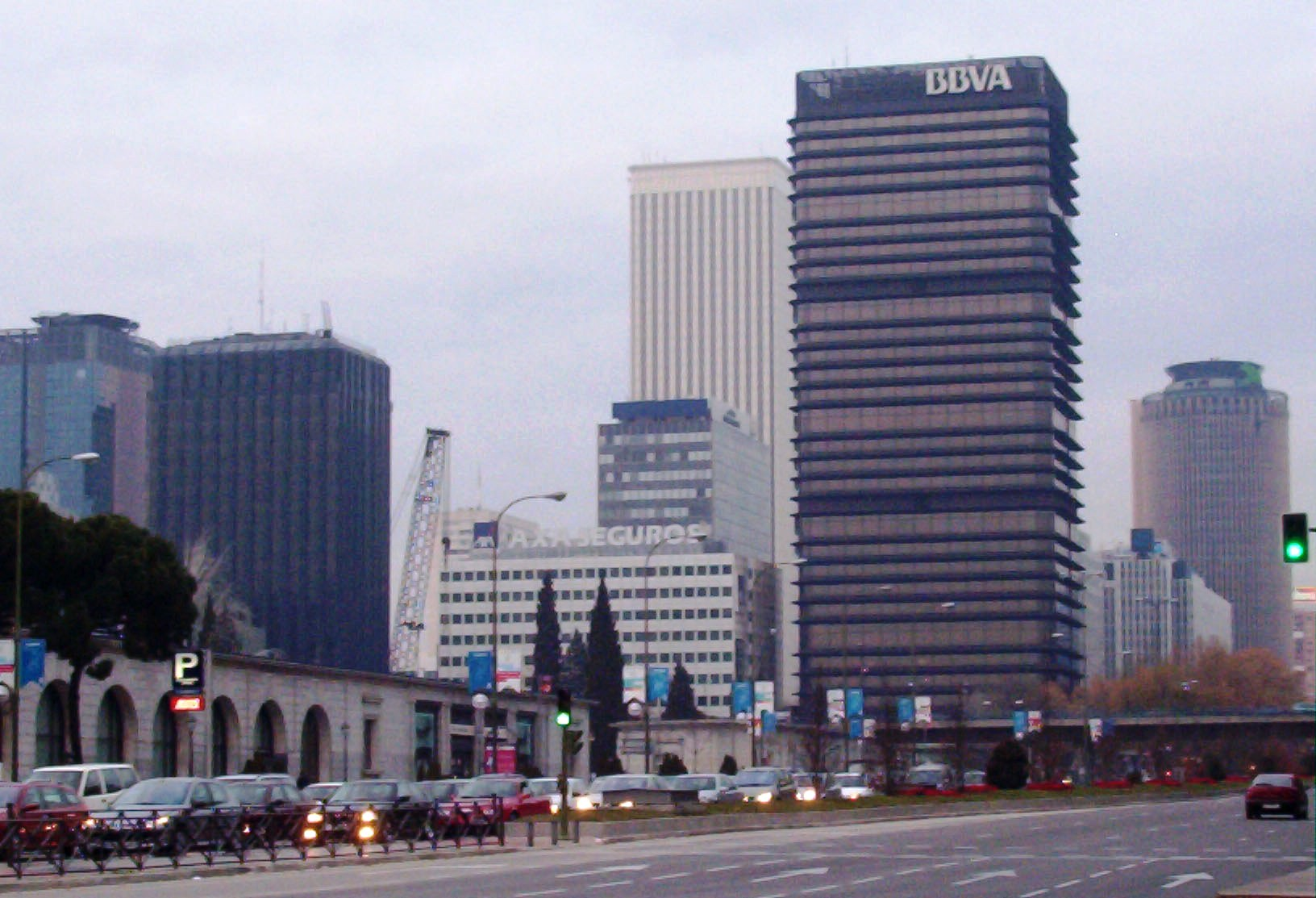 A view of AZCA (a business park) from Paseo de la Castellana (avenue) in Madrid (Spain).